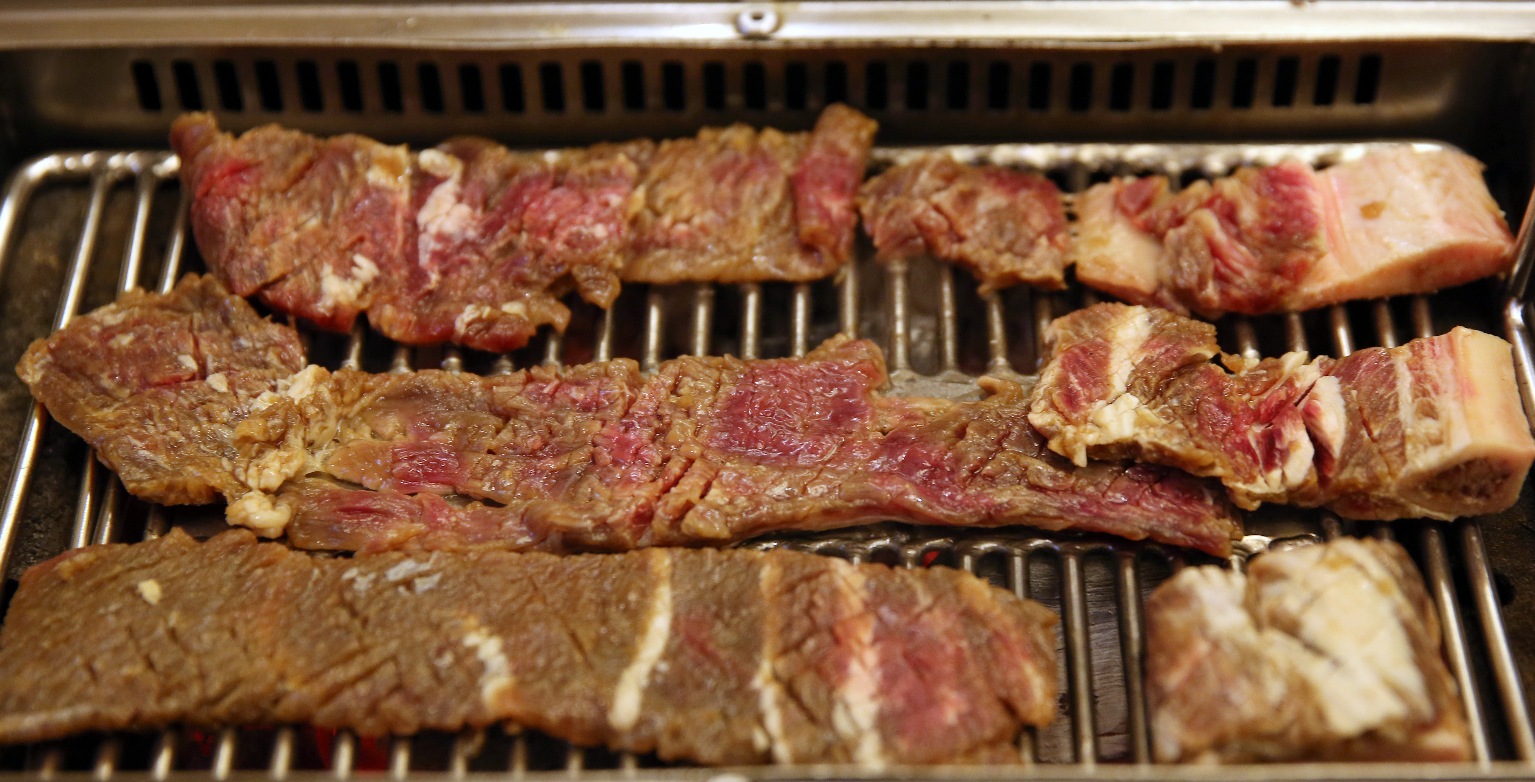 Galbi or kalbi generally refers to a variety of gui or grilled dishes in Korean cuisine that are made with marinated beef (or pork) short ribs in a ganjang-based sauce (Korean soy sauce).